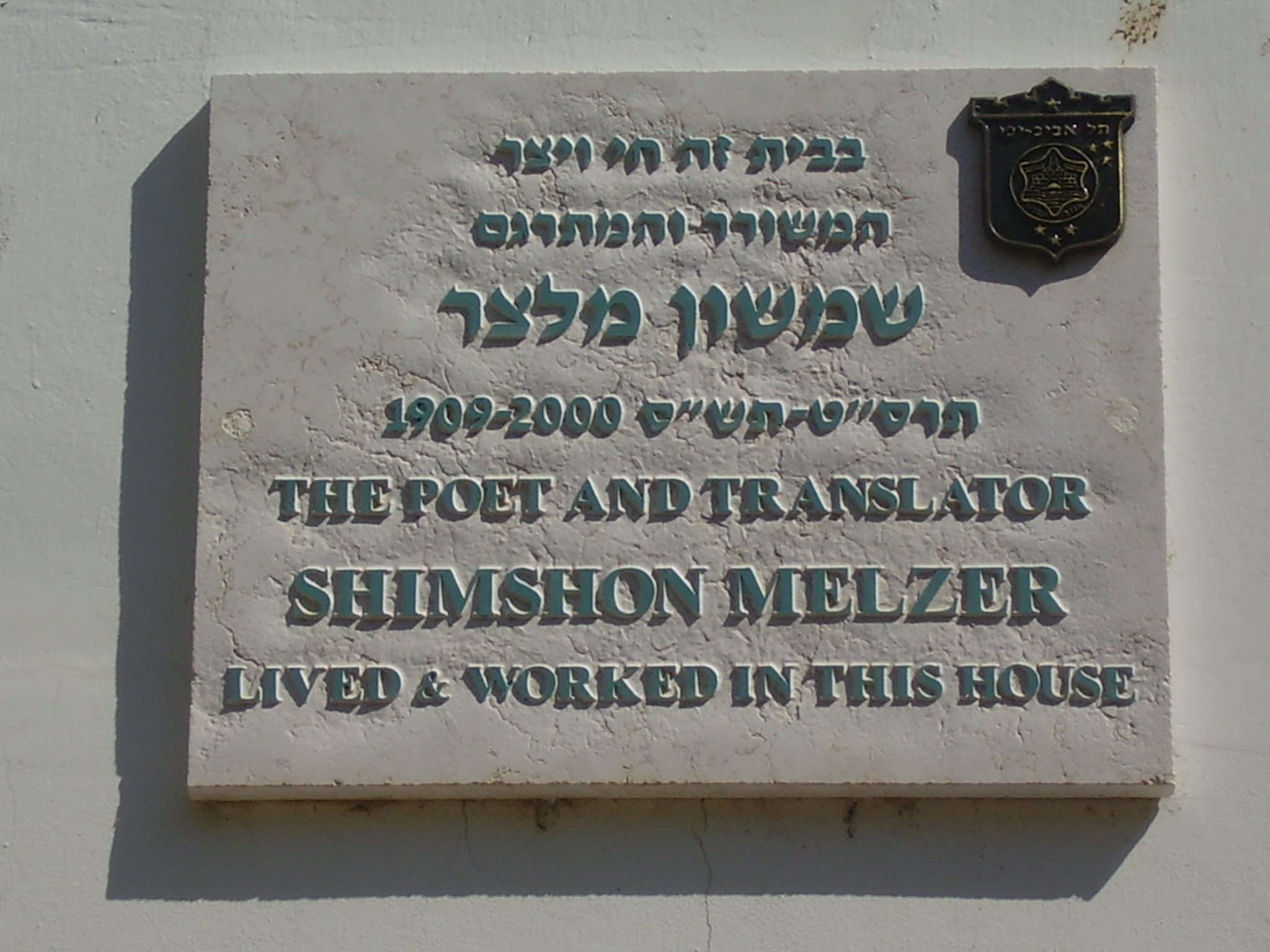 memorial plaque on the house of the poet and translator shimshon melzer in tel aviv לוחית זיכרון על ביתו של המשורר והמתרגם שמשון מלצר ברח' מאנה 19 בתל אביב